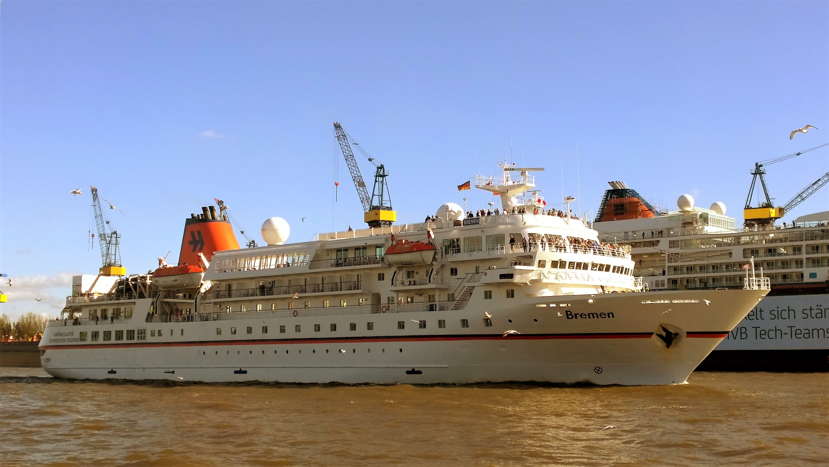 Hapag-Lloyd Passenger ship Bremen in Hamburg, Elbe downwards in October 2017